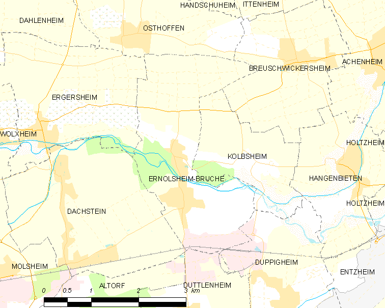 Map of French municipality